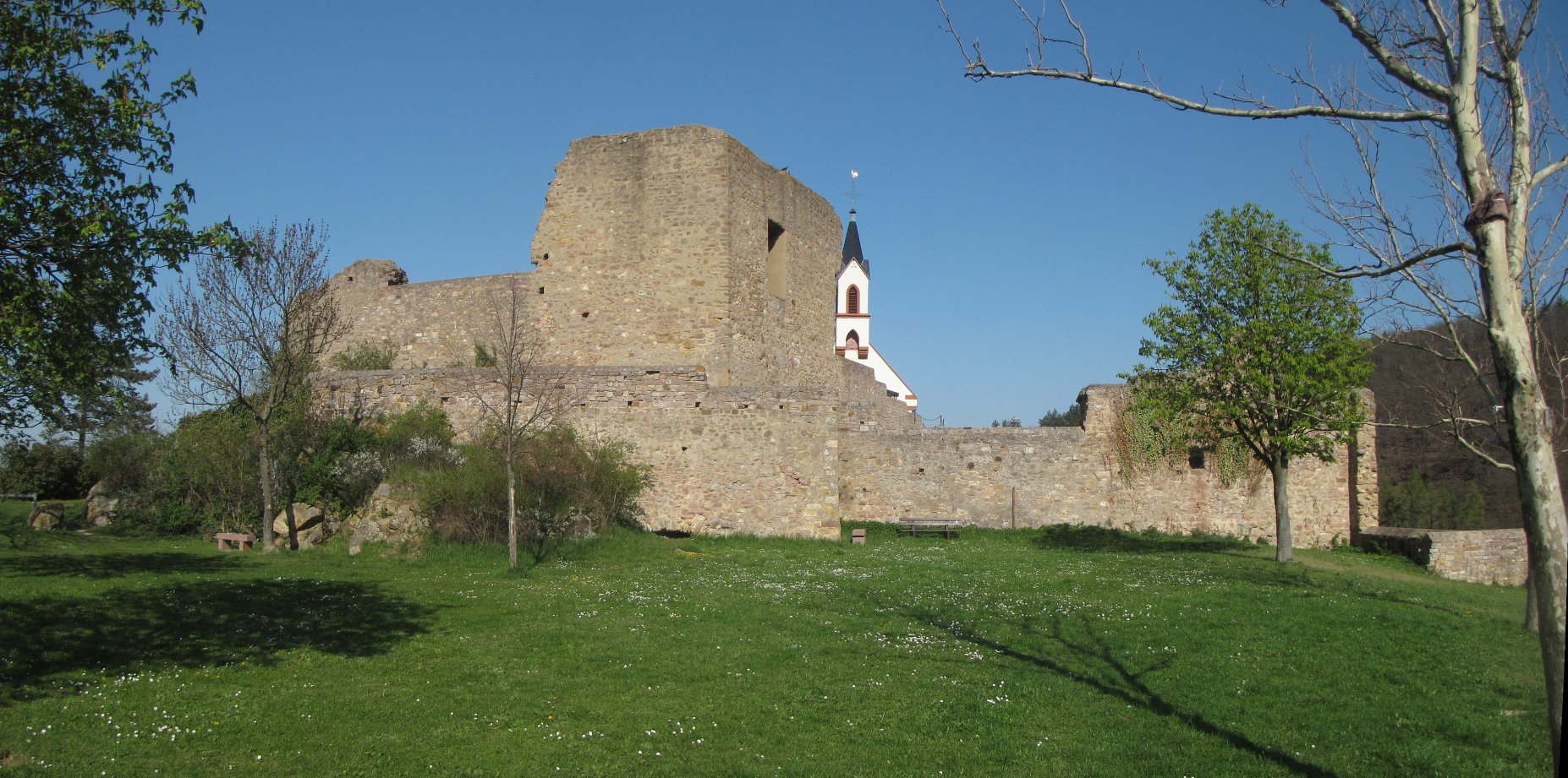 Neu-Baumburg